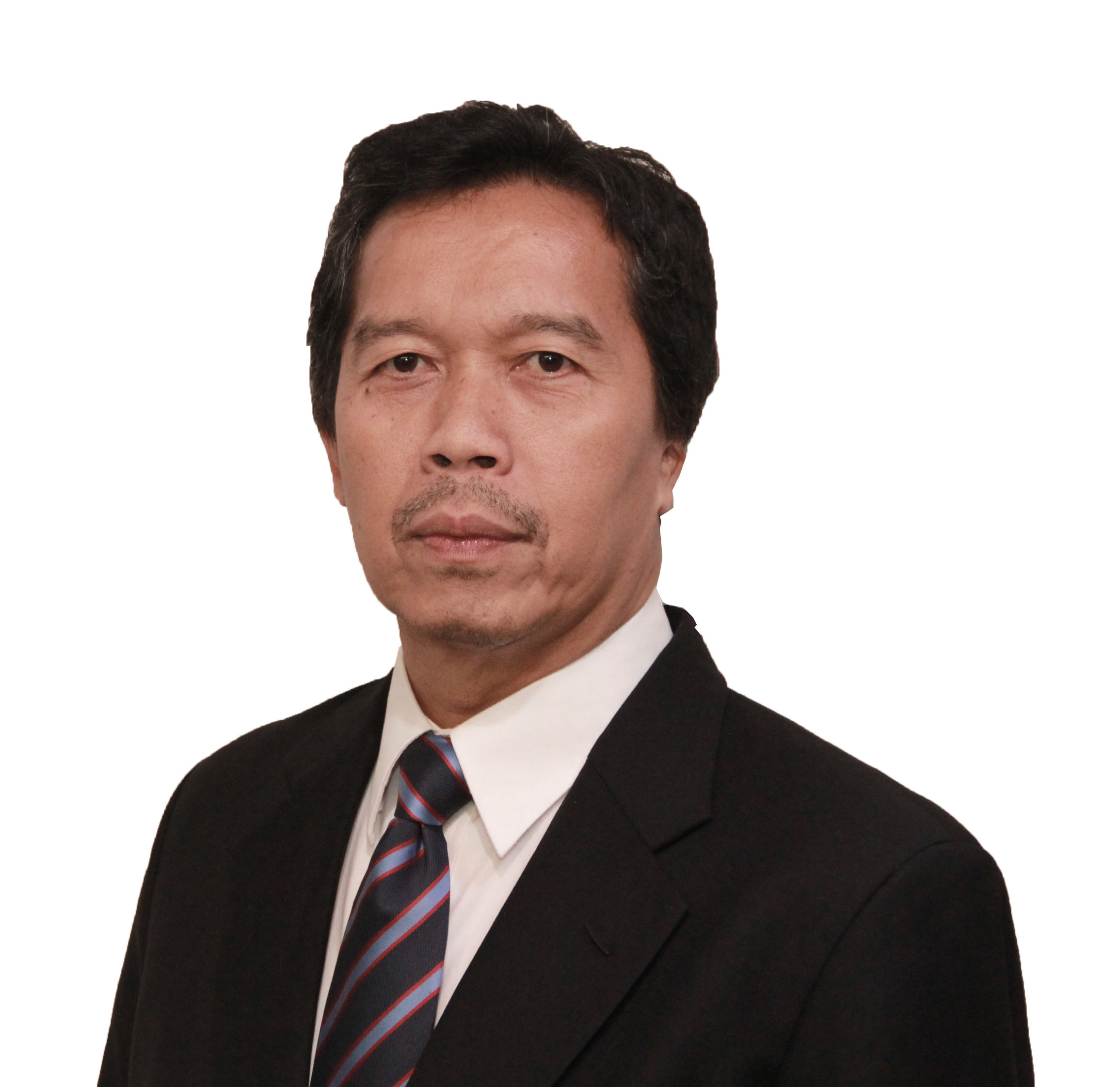 Wiwiek Sisto Widayat Photo